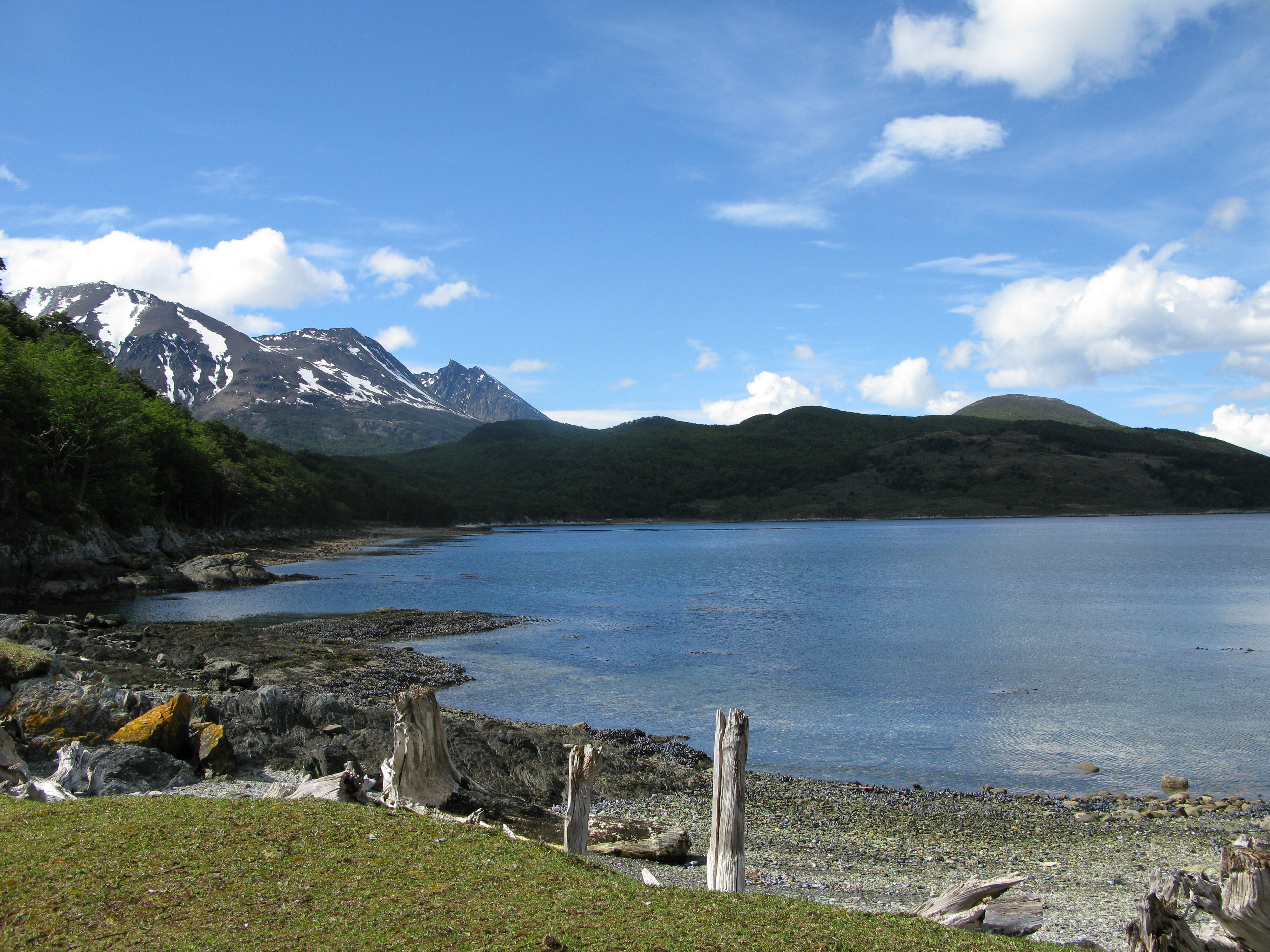 Tierra del Fuego National Park (view of coast)